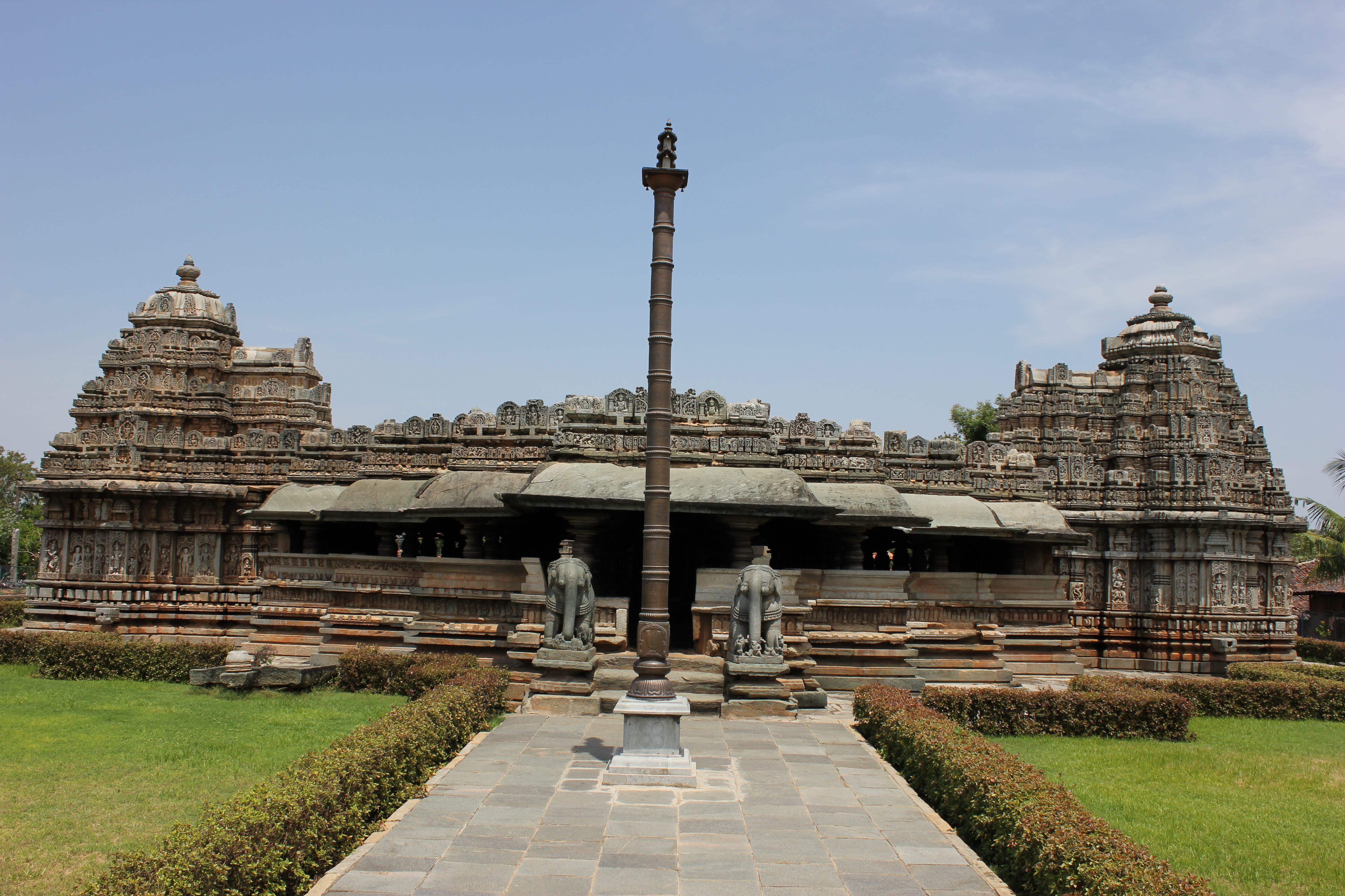 This photograph was taken by self (Dinesh Kannambadi) at the Veeranarayana temple In Belavadi, Chikkamagaluru district, Karnataka state, India. This ornate trikuta (three shrined) temple was built in 1200 C.E. by Hoysala Empire King Veera Ballala II.